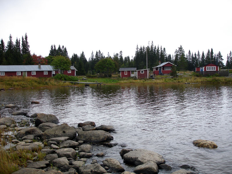 Old fishermen's cottages, now summer cottages on the island of Tarv outside Obbola in Umeå Municipality, Sweden.